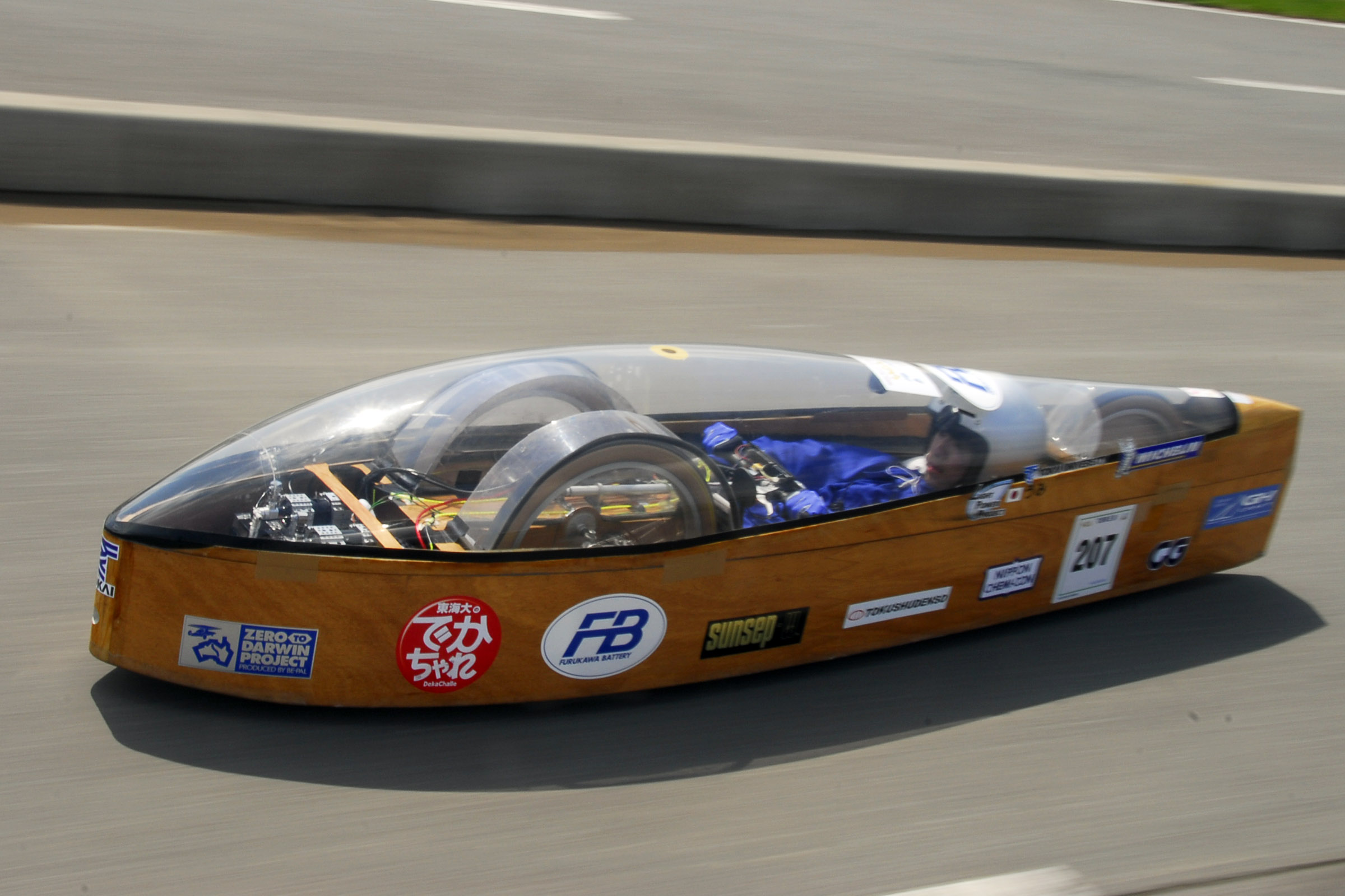 Japanese highly efficient fuel cell vehicle "Miracle Nenryo Denchi-kun" developed by Tokai University. The winner of 2008 and 2009 "World Econo Move".